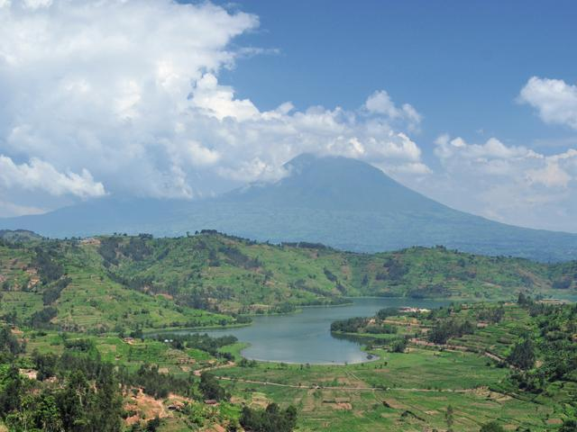 Pic by Neil Palmer (CIAT). General view of northwestern Rwanda, where CIAT's climbing beans have been widely adopted. Please credit accordingly.